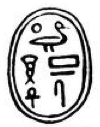 Scarab of pharaoh Sheneh, shadowy ruler of the 14th dynasty, second intermediate period